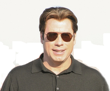 John Travolta coming up to say "hi" at the Reno Air Show & Races. Cropped version of Image:John.Travolta.2006.Reno.Air.jpg, and retouched with PhotoFiltre for clean.